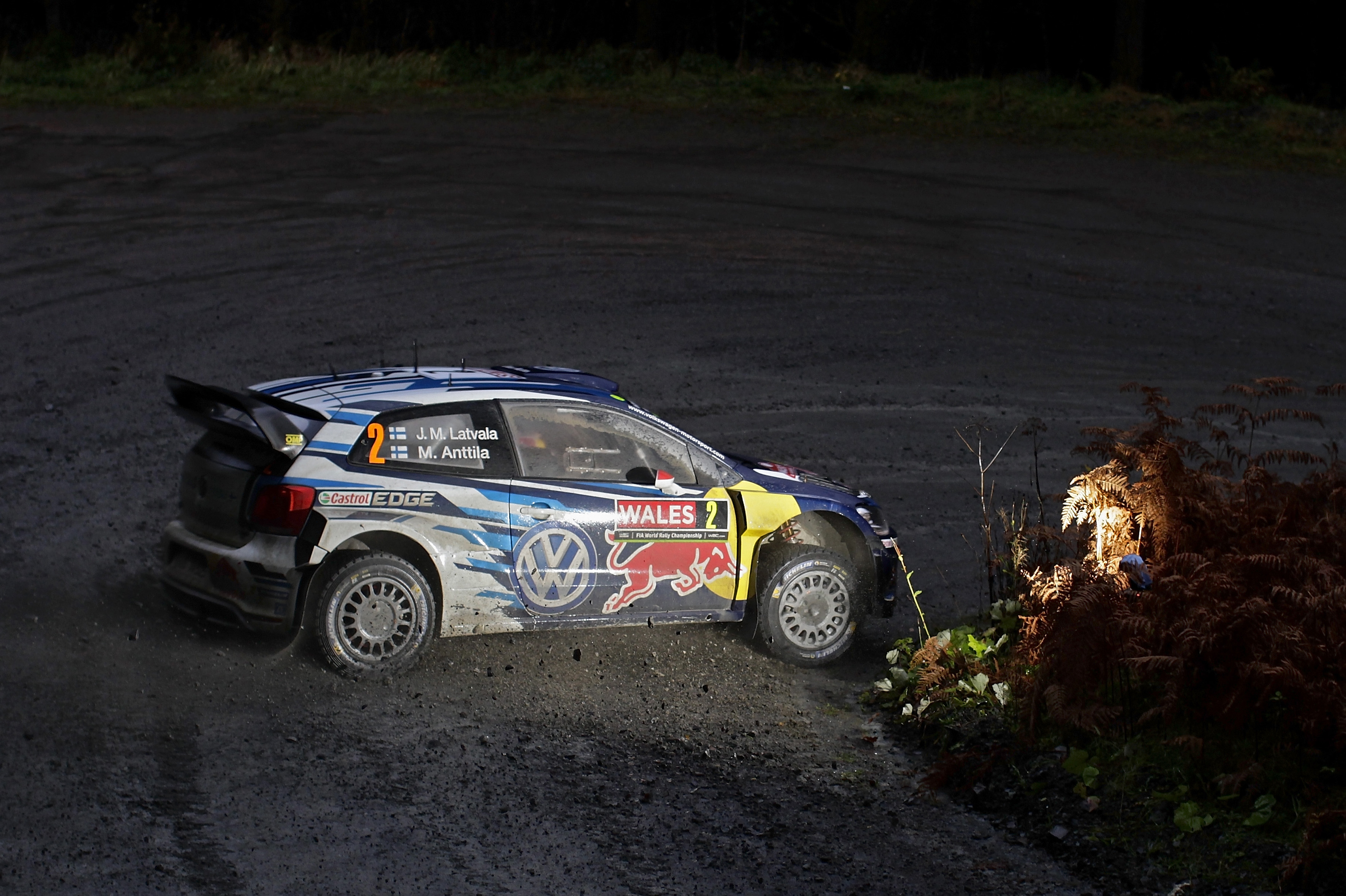 Jari-Matti Latvala and co-driver Miikka Anttila in their Volkswagen Polo R WRC at the 2015 Wales Rally GB.